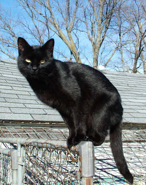 I took this picture of Lilith, a black cat found as a kitten in a supermarket parking lot. Feel free to share this image, but leave "Lilith" in the file name, please!